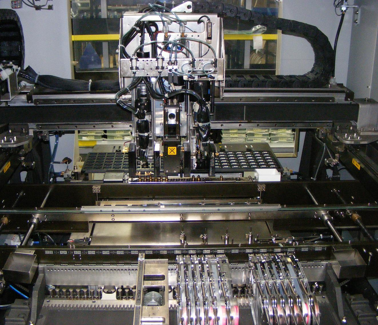 Internals of a Juki KE2010L 4-head pick and place surface mount machine. The machine is used to place electronic components that are soldered to the face of a printed circuit board rather than having leads that go through holes in the board. The machine is loaded with standard 8" reels on mechanical feeders (front right) and a tray of QFP microprocessors (rear centre).